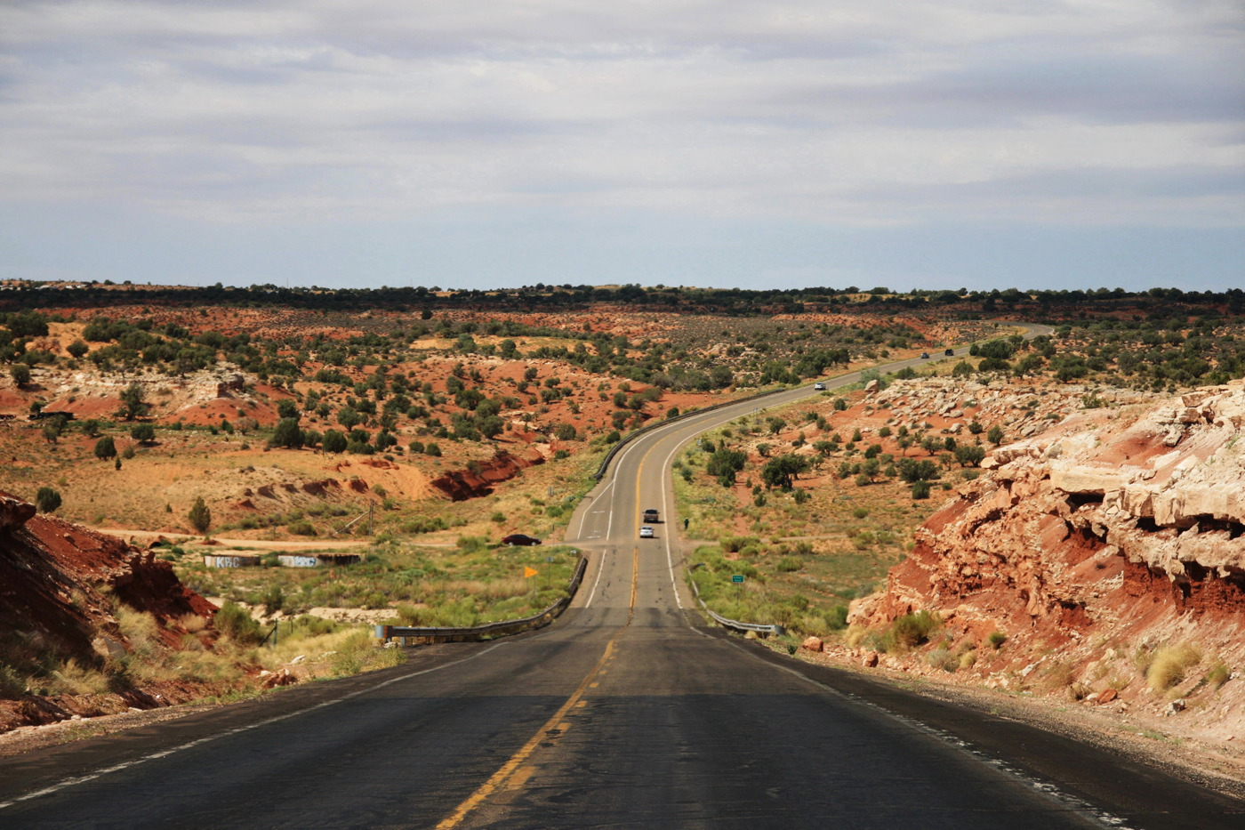 Arizona State Route 98 east of Kaibito, Arizona.